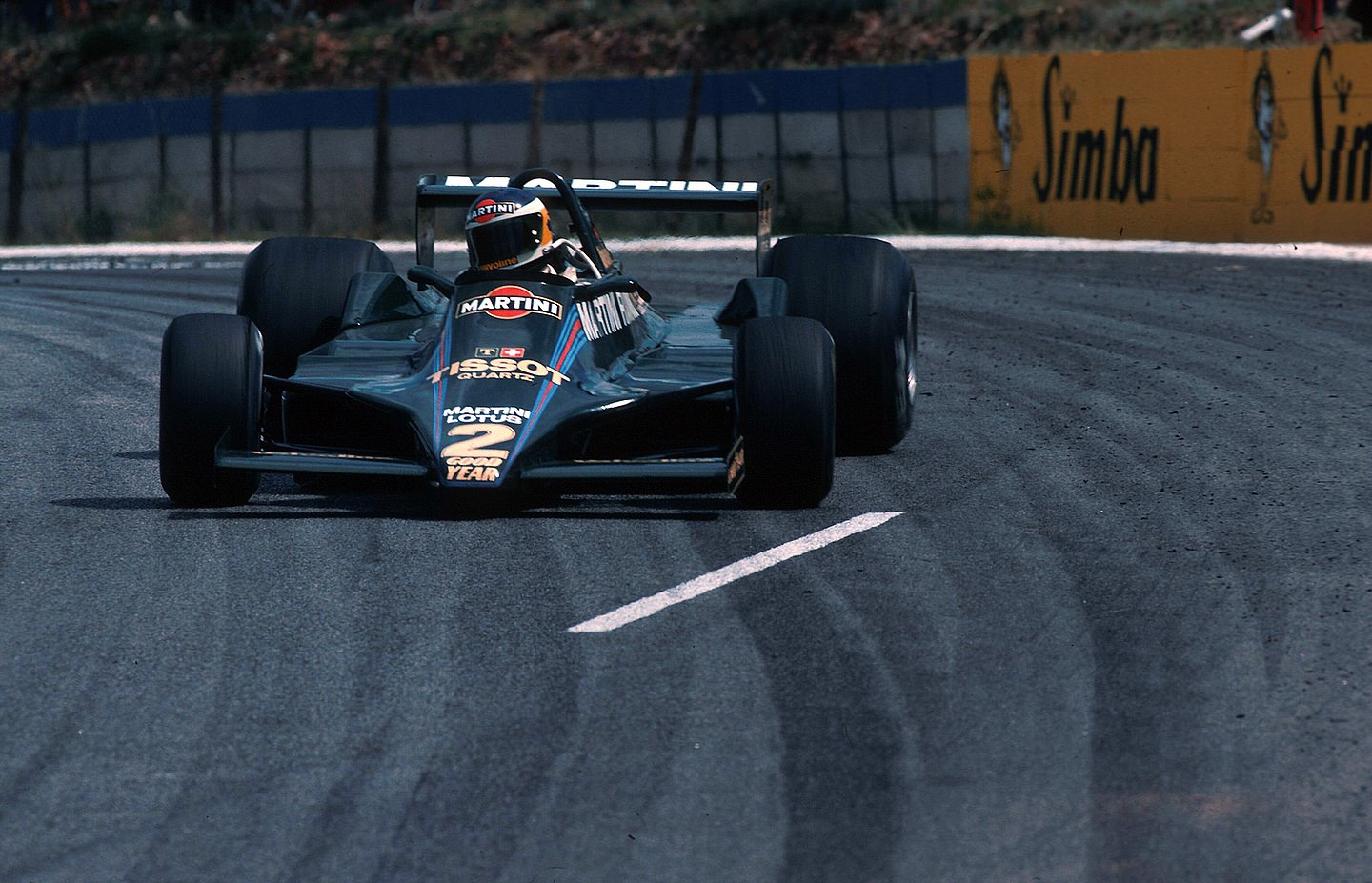 Carlos Reutemann, driving his Martini Lotus Ford at the 1979 South African Grand Prix.